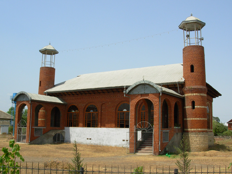 The Mosque somewhere in Lenkoran or thereabout, Azerbaijan